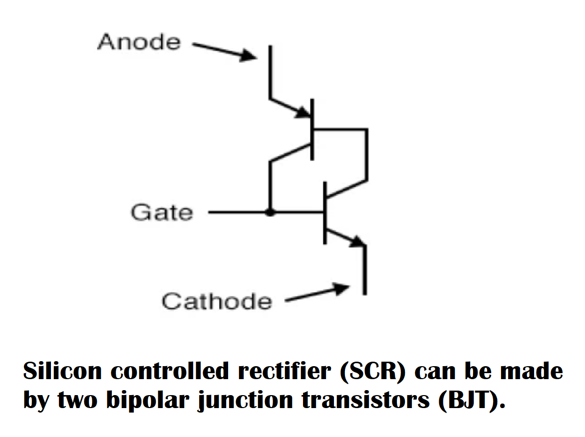 A PNP and NPN bipolar junction transistor connected this way can act as silicone controlled rectifier.